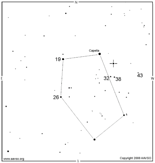 A variable star observing chart for epsilon Aurigae.